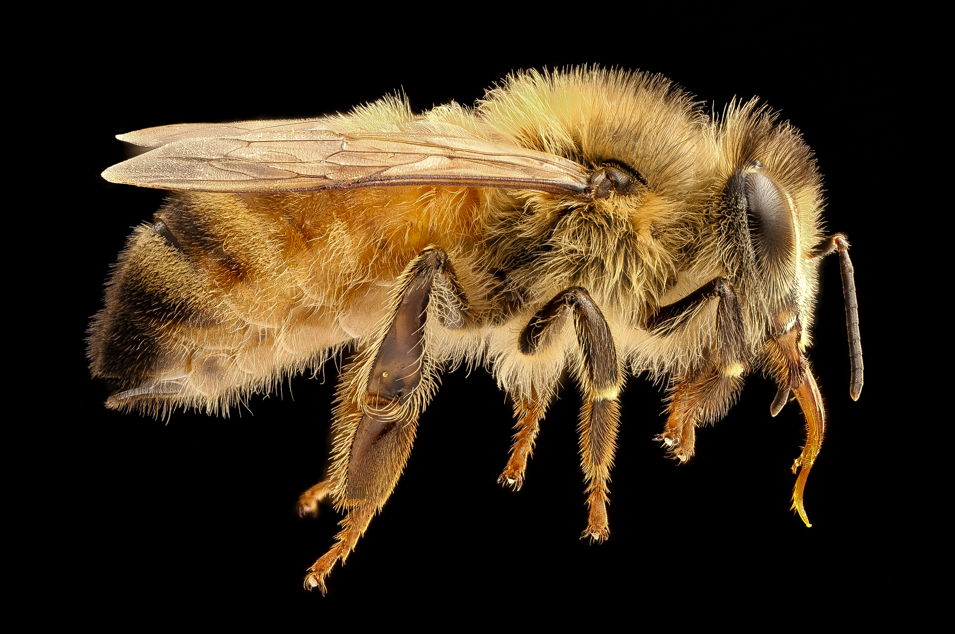 More worker honey bee shots from USDA honey bee specimens. These are both in the light body format and were collected in Beltsville, Maryland by Francisco Posada from the National Honey Bee Lab. 00:47, 1 July 2017 (UTC)00:47, 1 July 2017 (UTC) 0 00:47, 1 July 2017 (UTC)00:47, 1 July 2017 (UTC) All photographs are public domain, feel free to download and use as you wish. Photography Information: Canon Mark II 5D, Zerene Stacker, Stackshot Sled, 65mm Canon MP-E 1-5X macro lens, Twin Macro Flash in Styrofoam Cooler, F5.0, ISO 100, Shutter Speed 200 Beauty is truth, truth beauty - that is all Ye know on earth and all ye need to know " Ode on a Grecian Urn" John Keats You can also follow us on Instagram - account = USGSBIML Want some Useful Links to the Techniques We Use? Well now here you go Citizen: Art Photo Book: Bees: An Up-Close Look at Pollinators Around the World Free Field Guide to Bee Genera of Maryland Basic USGSBIML set up: USGSBIML Photoshopping Technique: Note that we now have added using the burn tool at 50% opacity set to shadows to clean up the halos that bleed into the black background from "hot" color sections of the picture. PDF of Basic USGSBIML Photography Set Up: ftp://ftpext.usgs.gov/pub/er/md/laurel/Droege/How%20to%20Take%20MacroPhotographs%20of%20Insects%20BIML%20Lab2.pdf Google Hangout Demonstration of Techniques: or Excellent Technical Form on Stacking: Contact information: Sam Droege 301 497 5840